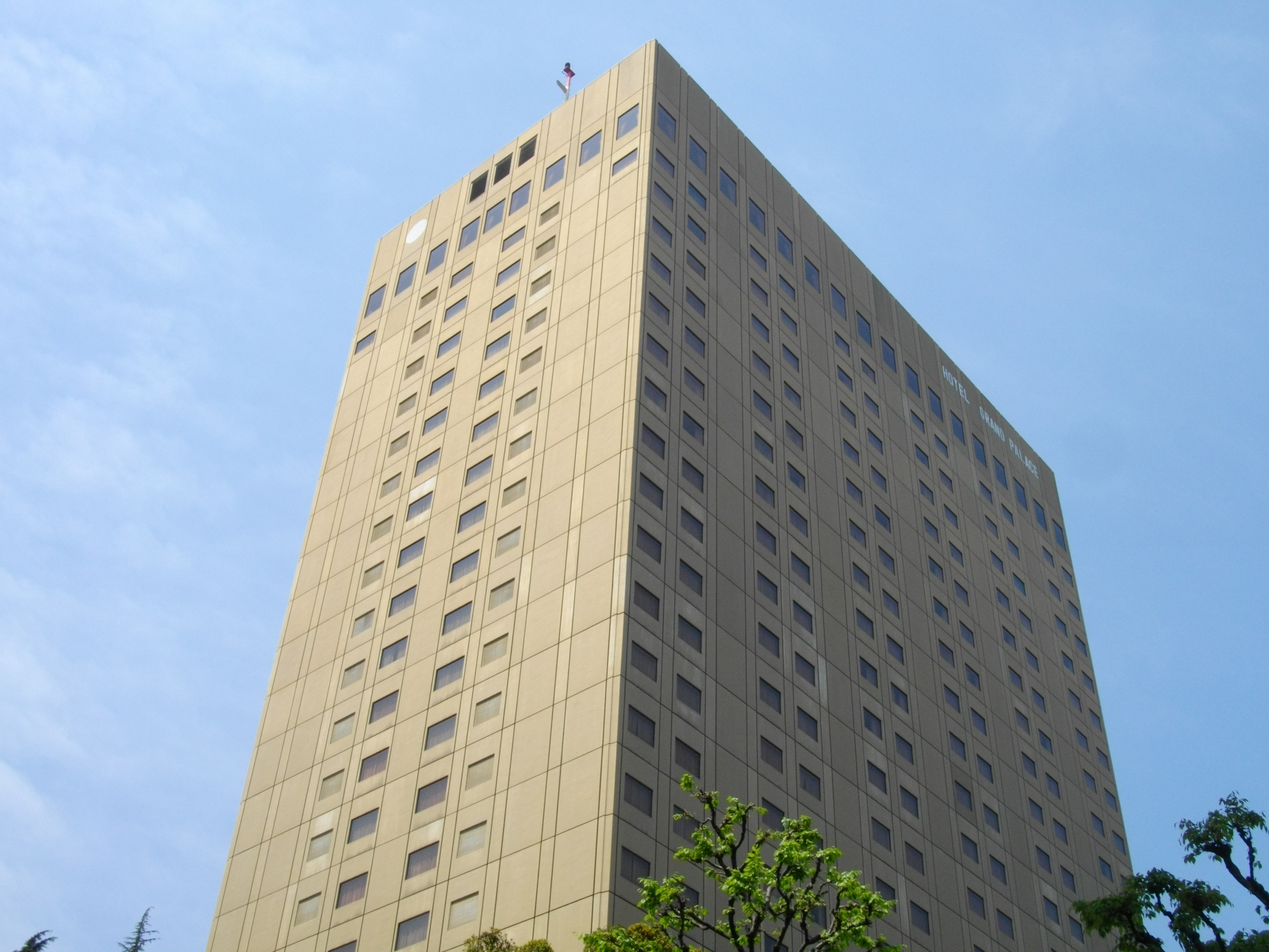 Hotel Grand Palace